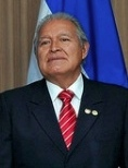 El Salvador President Salvador Sánchez Cerén